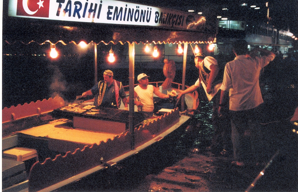 Fish sandwich boat, Istanbul